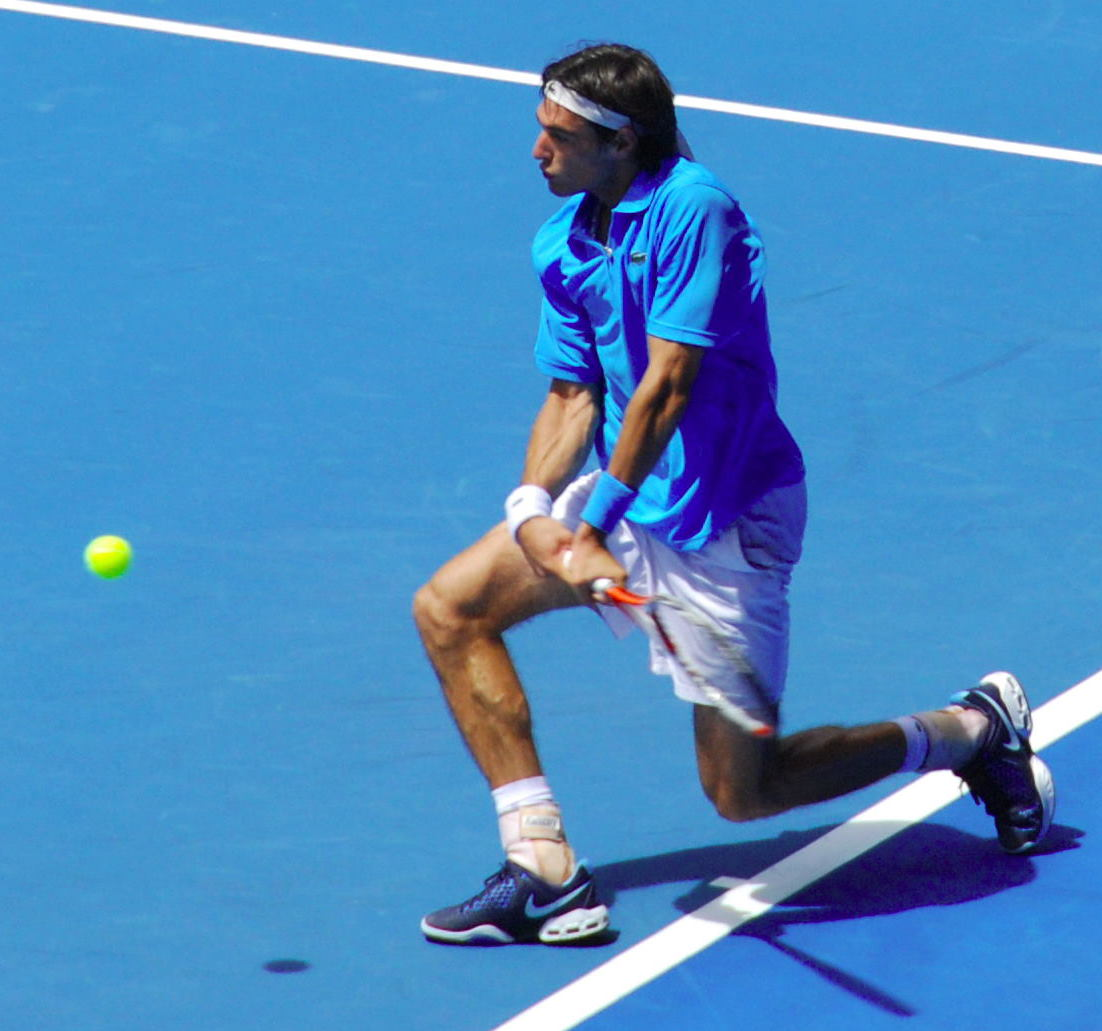 Jérémy Chardy at 2009 Australian Open, Melbourne, Australia.